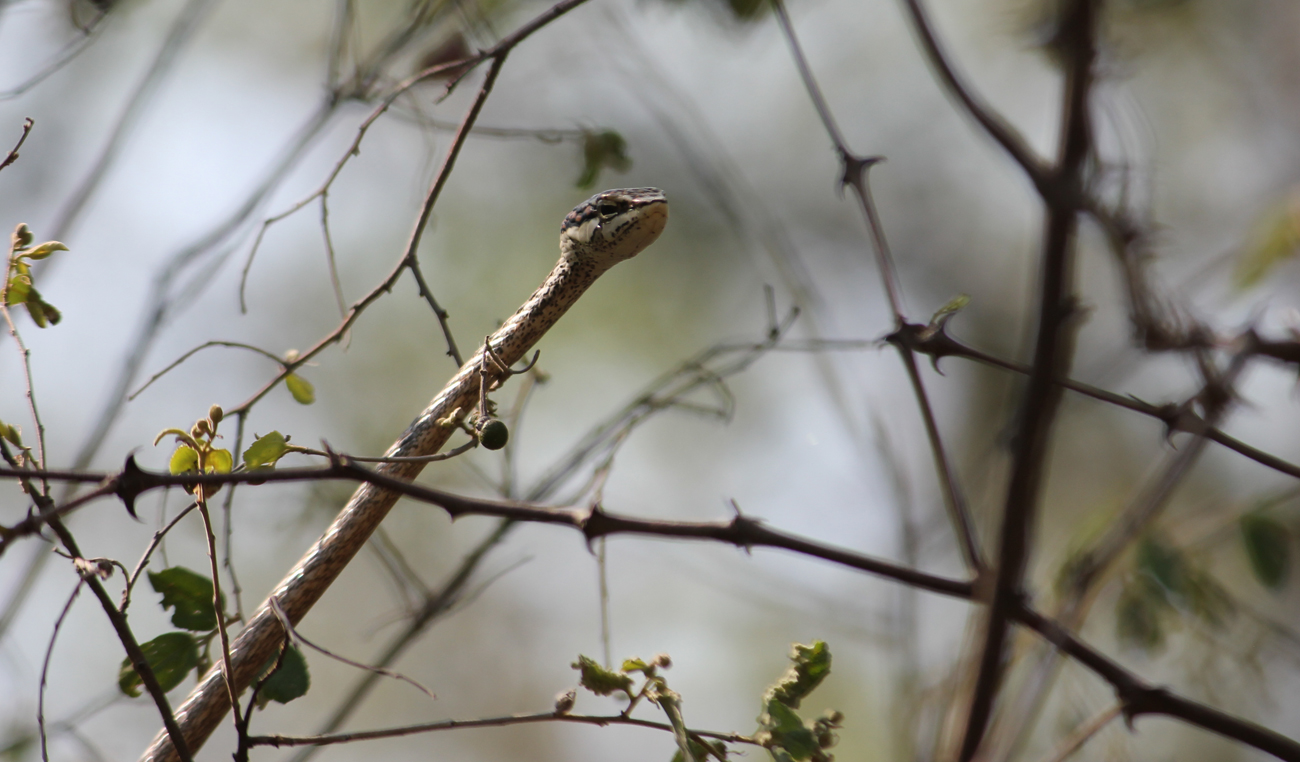 Thelotornis capensis, Soutpansberg, Limpopo, South Africa